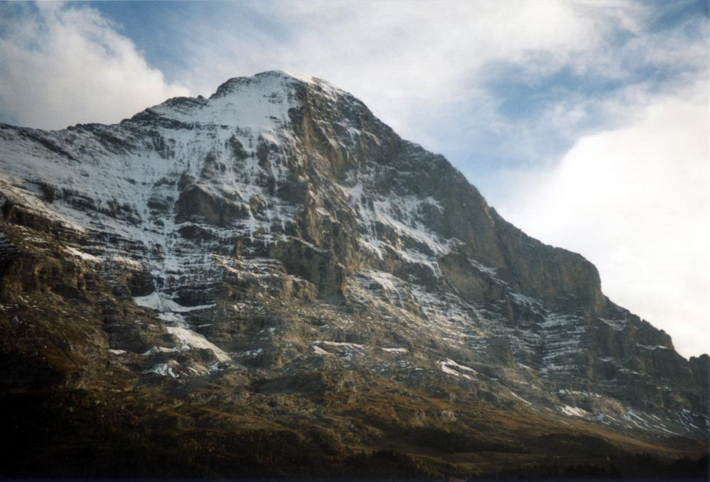 Eiger from a point east and above Grindelwald, view of the NE and NW face (=N-face); left upper ridge is the Mittellegigrat